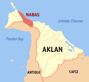 Map of Aklan showing the location of Nabas